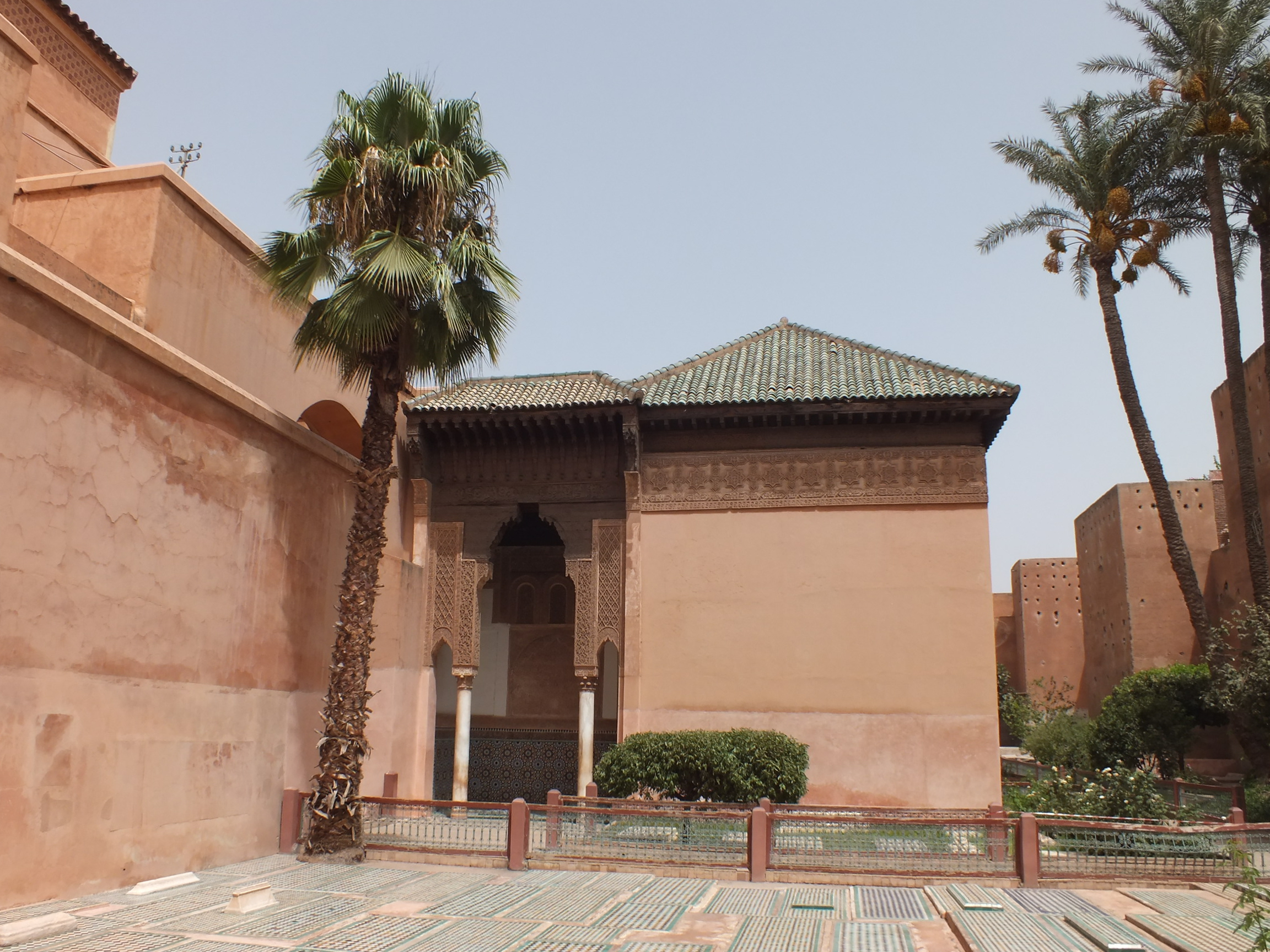 Outer view of the second (smaller) mausoleum of the saadian tombs in marrakech